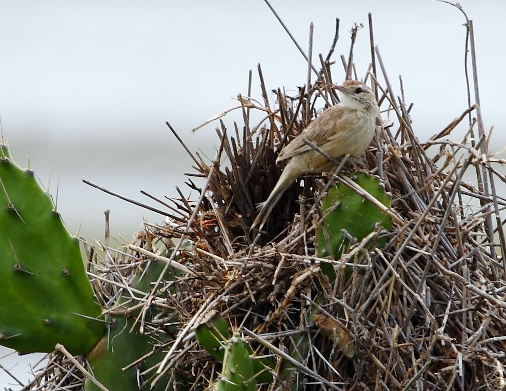 Firewood gatherer on its nest; Tavares, Rio Grande do Sul, Brazil